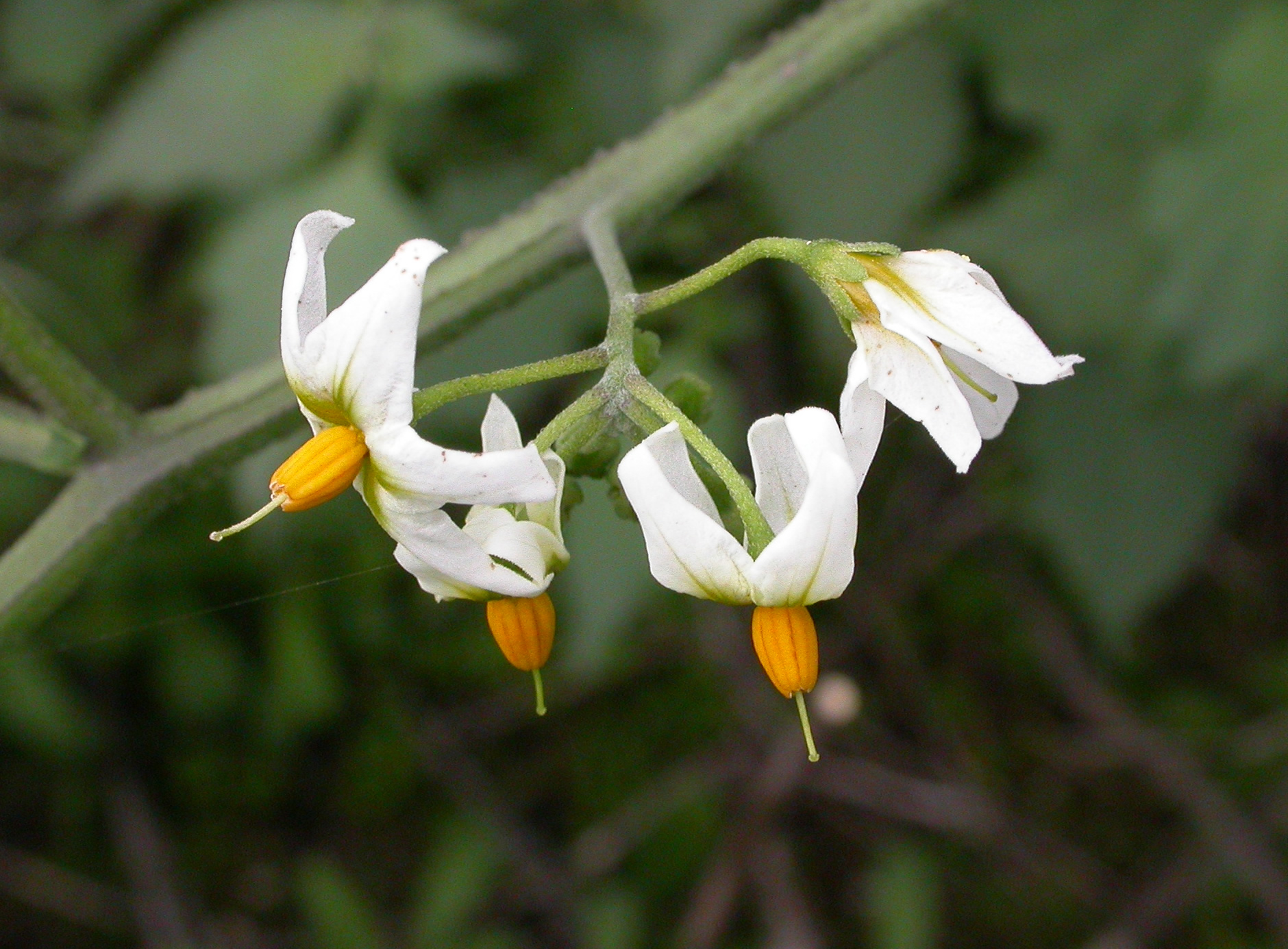 Photographed in Voorhis Ecological Reserve near Pomona, CA, USA.